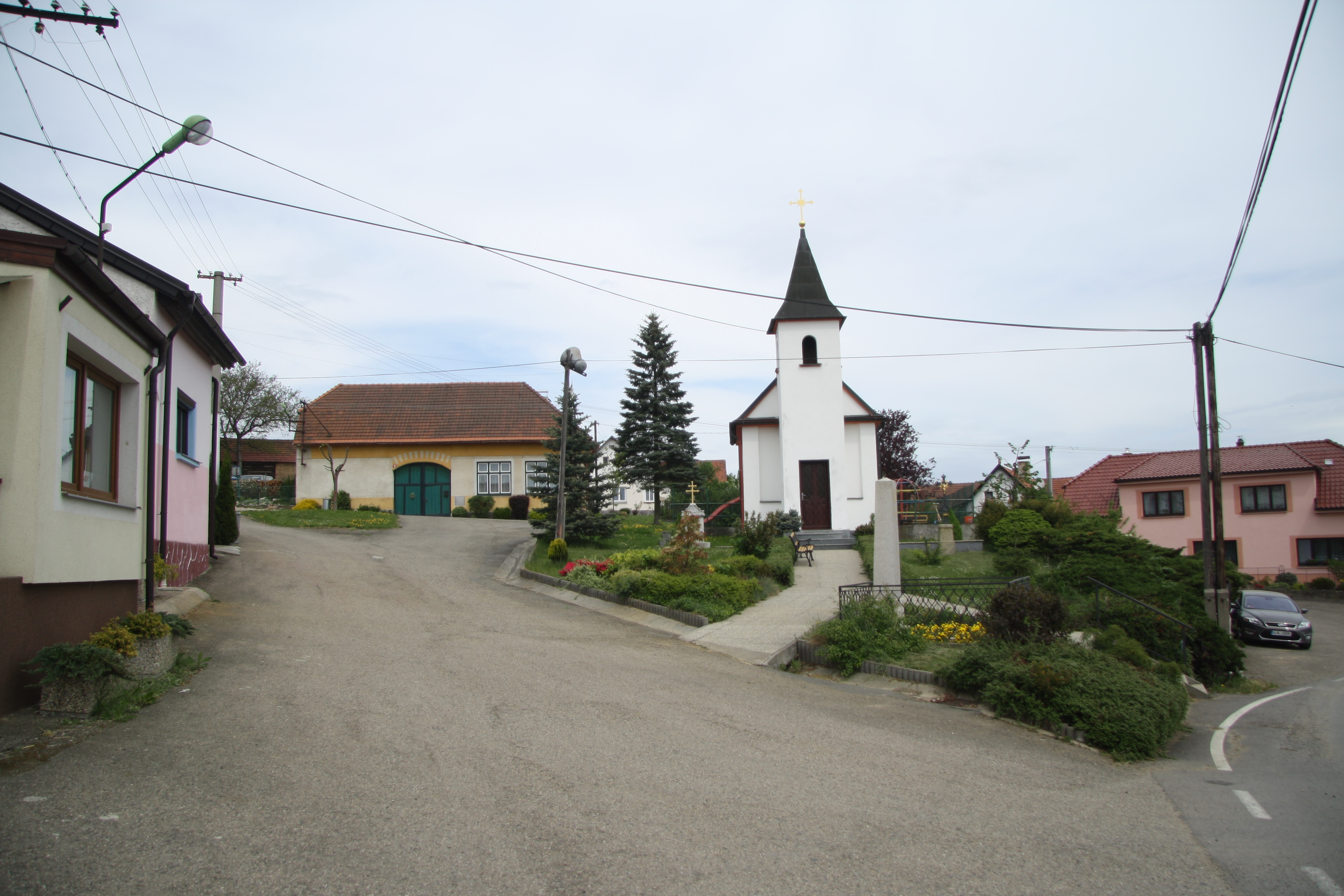 Center of Miřetice, Benešov District.